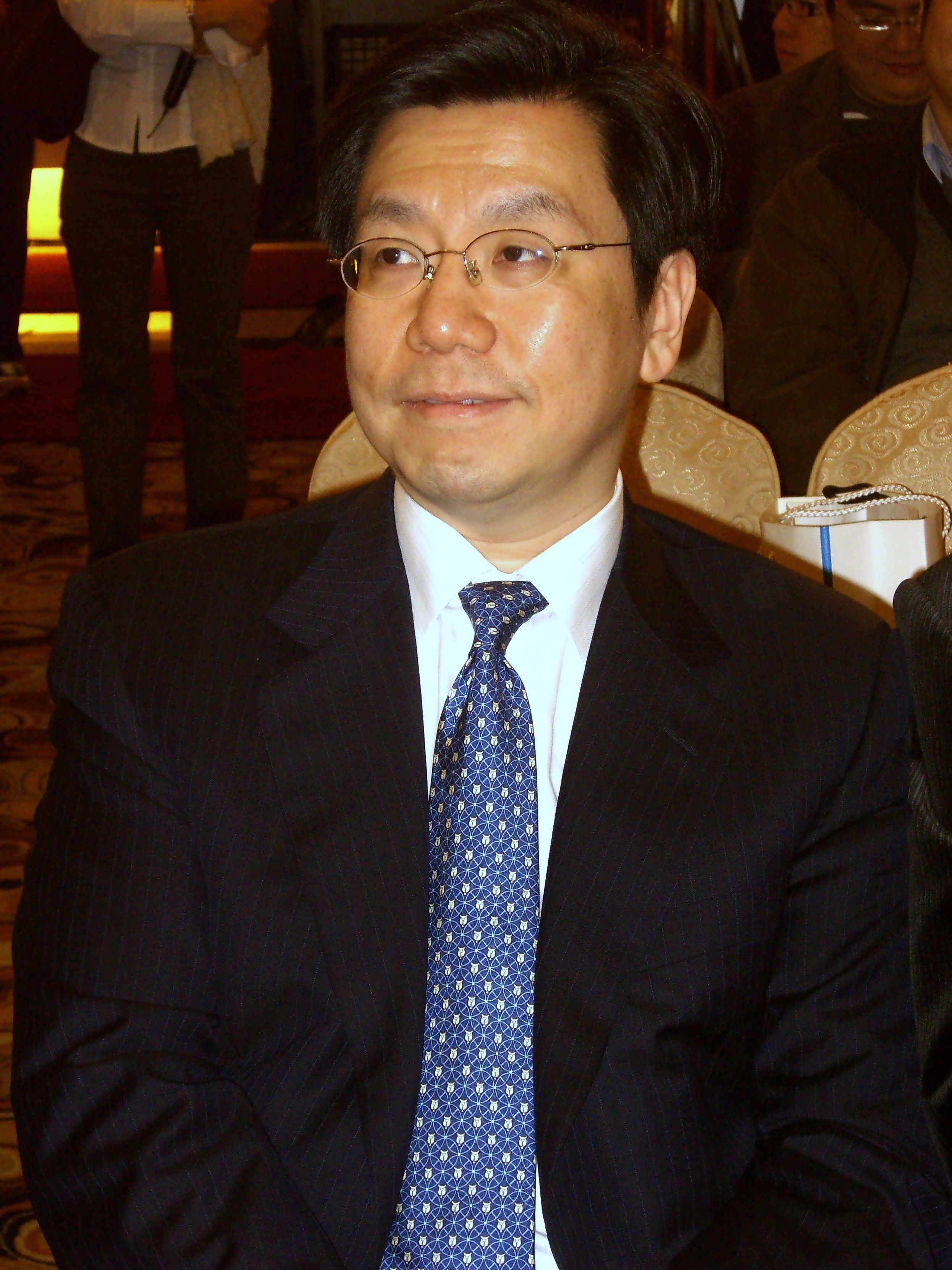 Kai-Fu Lee, Founding President of Google China.